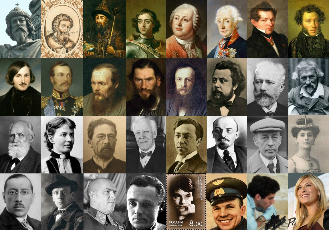 A minor adjustment to File:Russianpeople3.jpg